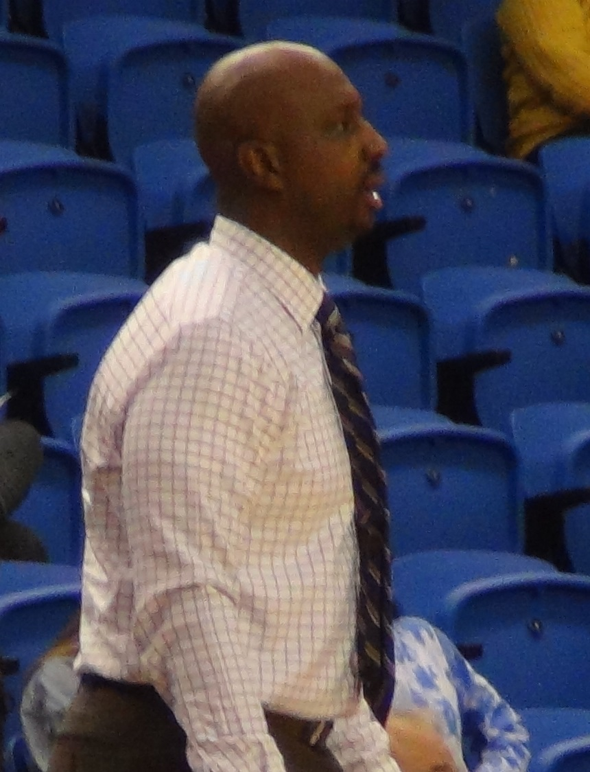 University of Wyoming men's basketball head coach Allen Edwards during a game at San Jose State University on February 1, 2020.